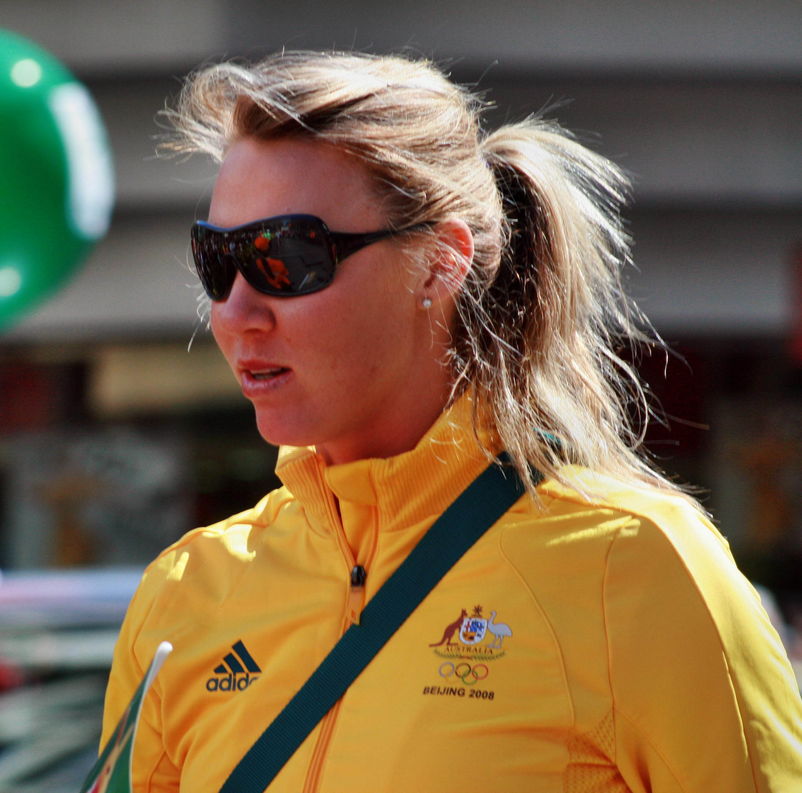 Melbourne homecoming parade for 2008 Olympic Team. Australian tennis player Alicia Molik.